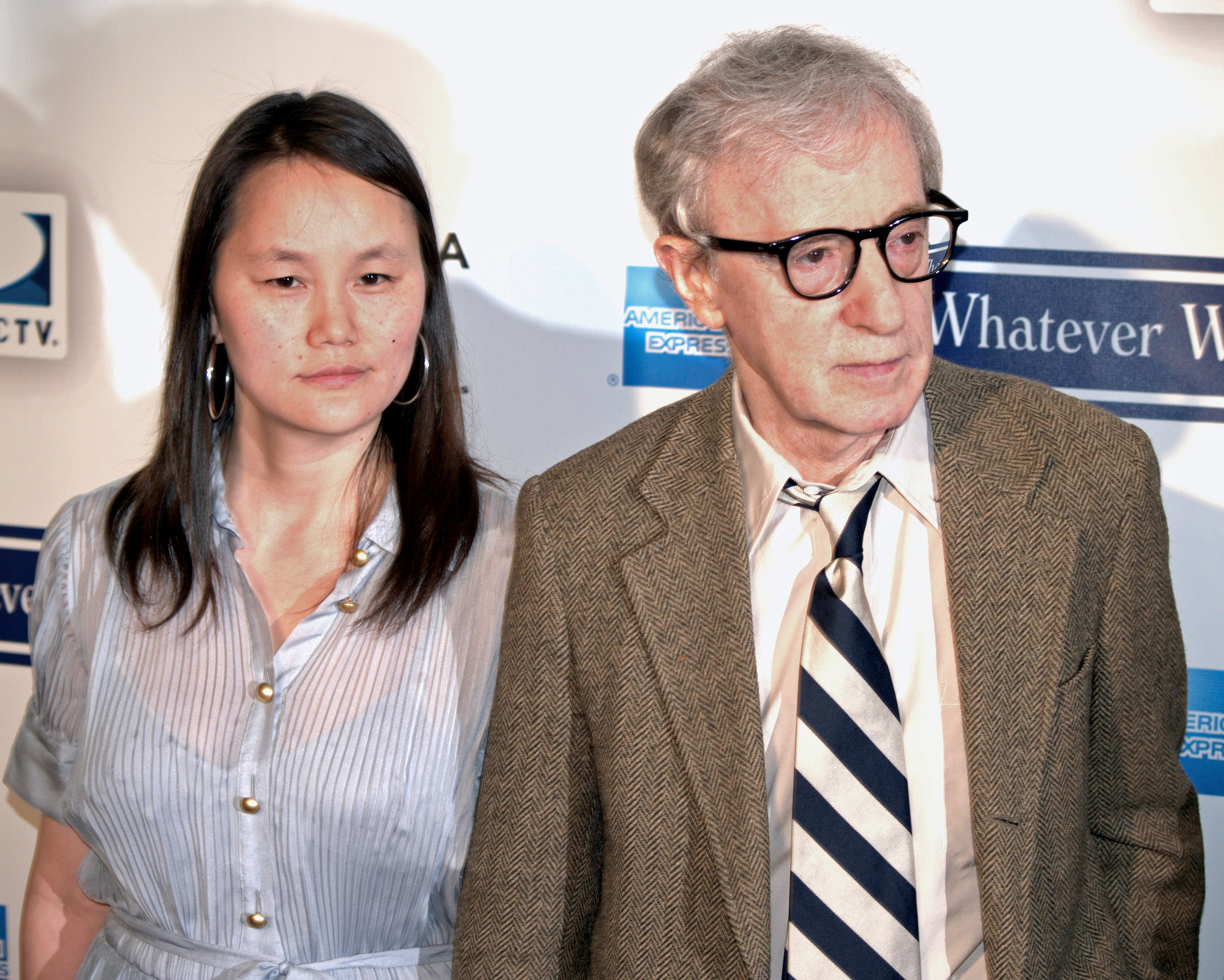 Soon-Yi Previn and Woody Allen at the 2009 Tribeca Film Festival premiere of Whatever Works.